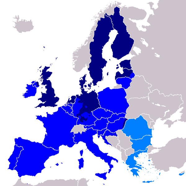 religions EU